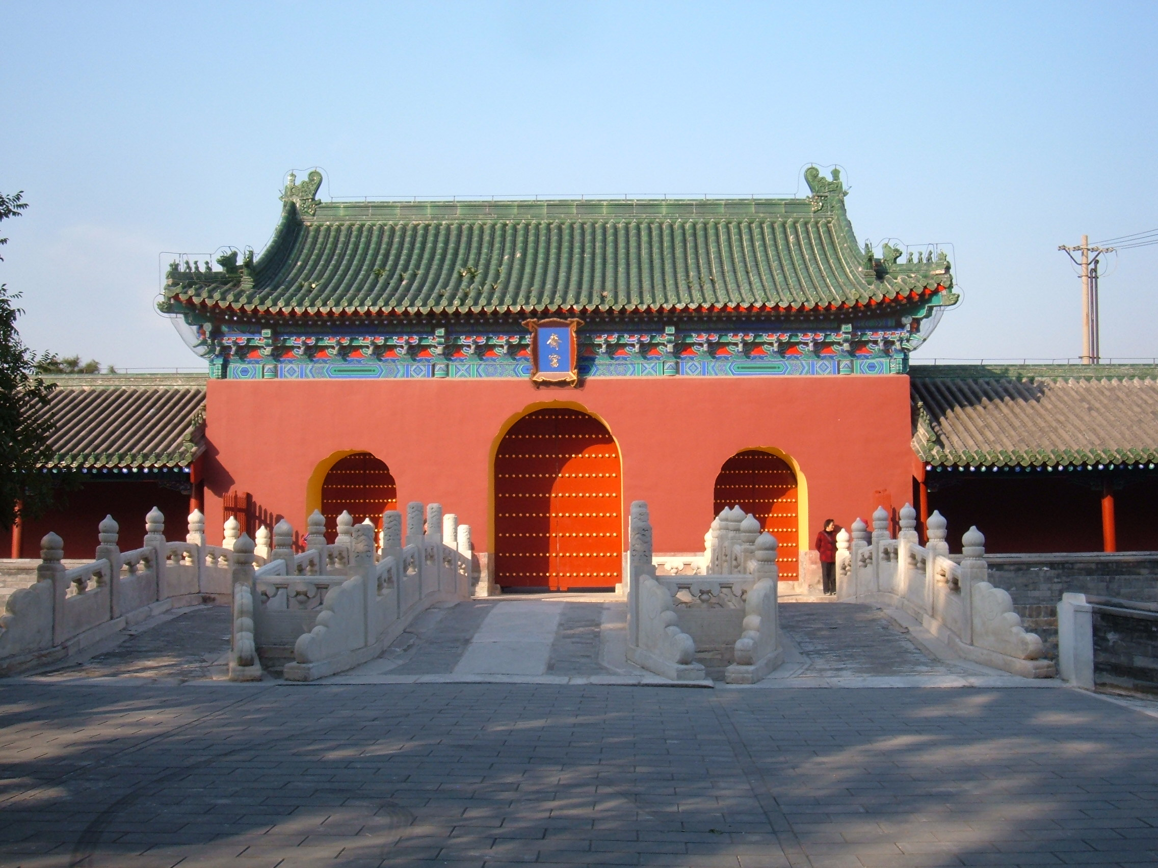 The east gate of the Hall of Abstinence in Temple of Heaven Park in Beijing, PRC.